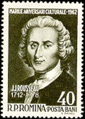 Text. Post of Romania 1962.